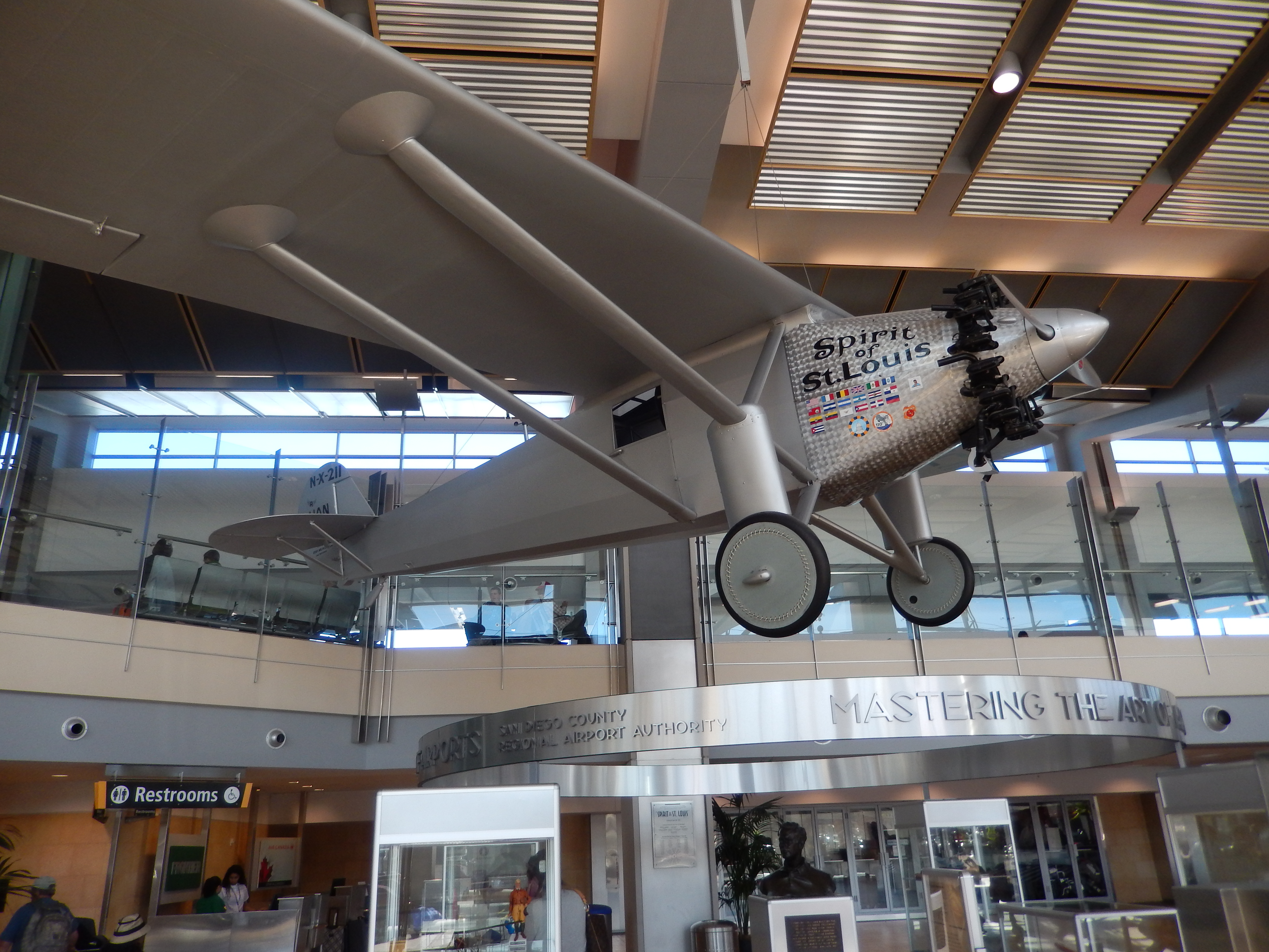 I took photo with Nikon camera of the Spirit of St. Louis plane at the San Diego Airport.